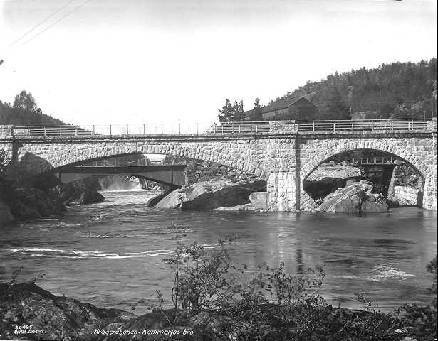 Vadfoss Bridge on the Kragerø Line, Norway